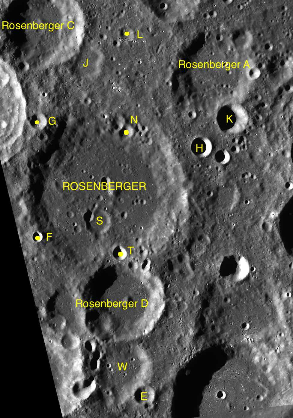 Part of the chart LAC-128 used for the presentation.